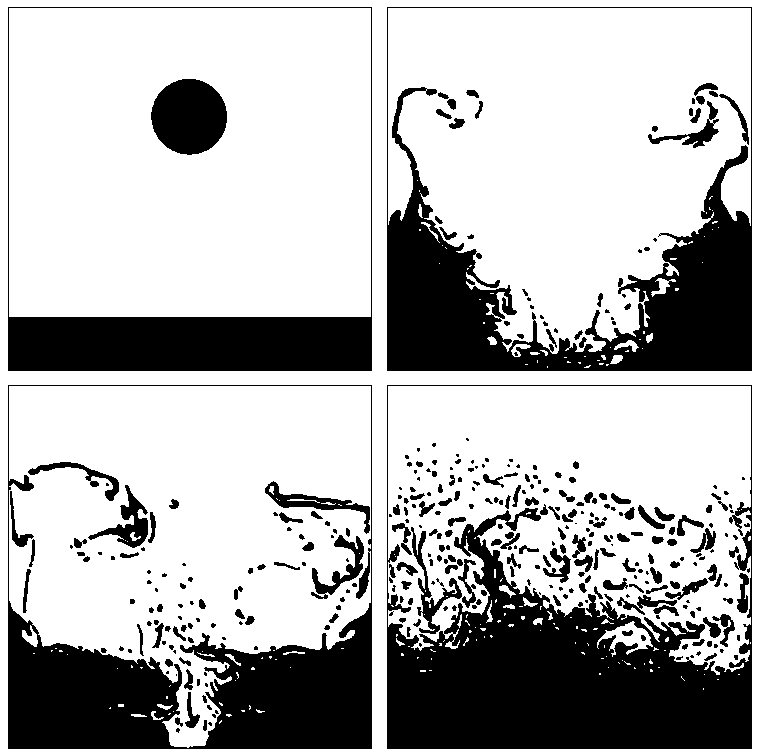 Simulation of the fluid flow (droplet splash without surface tension) calculated used Volume of Fluid method.